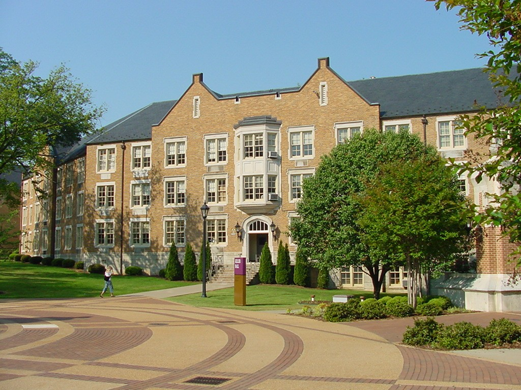 Keller Hall, University of North Alabama. Taken by me at University of North Alabama Campus, May, 2007.